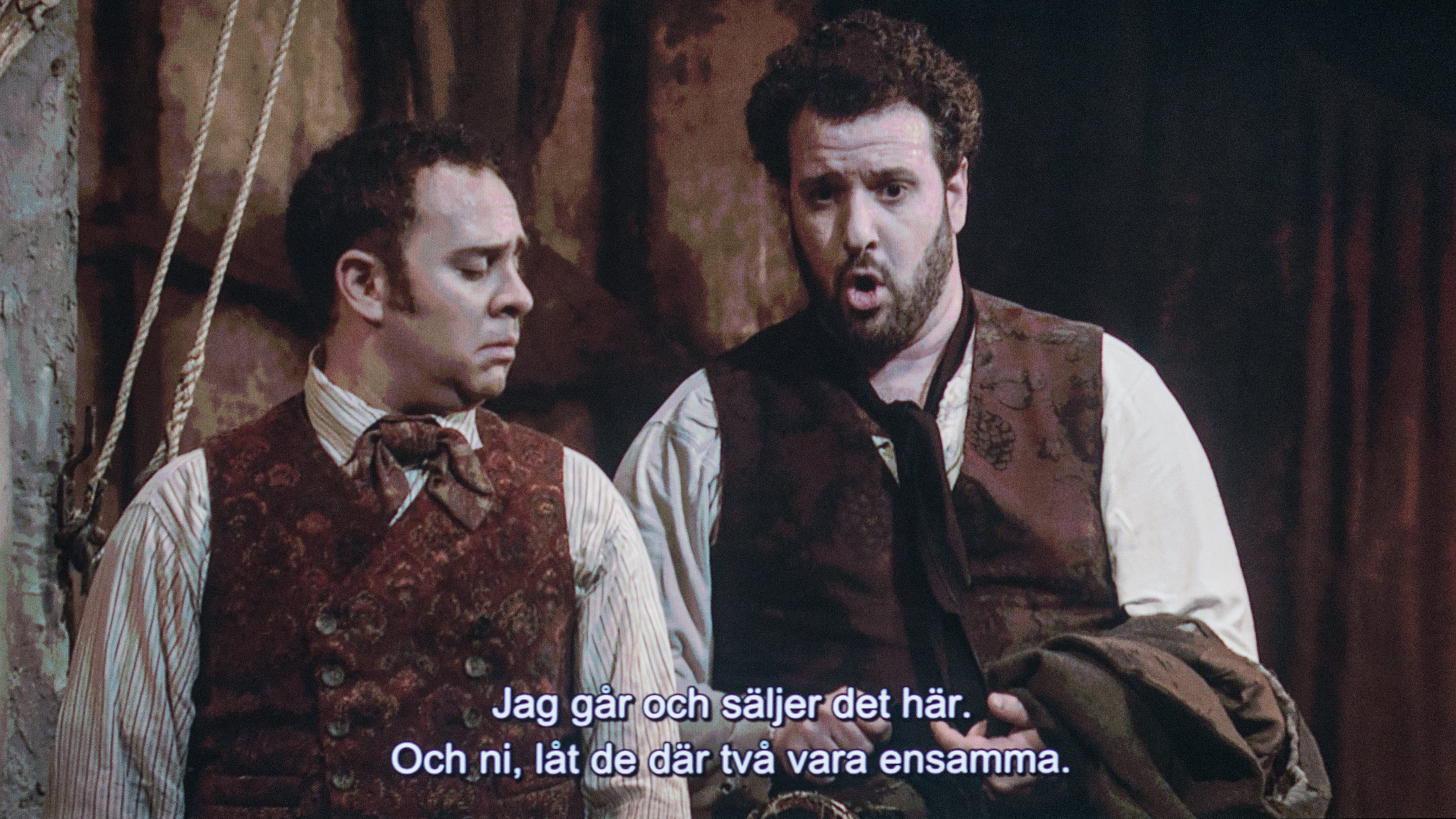 La Bohème from the Metropolitan Opera April 2014